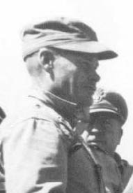 Colonel Puller at Inchon. Cropped; original from